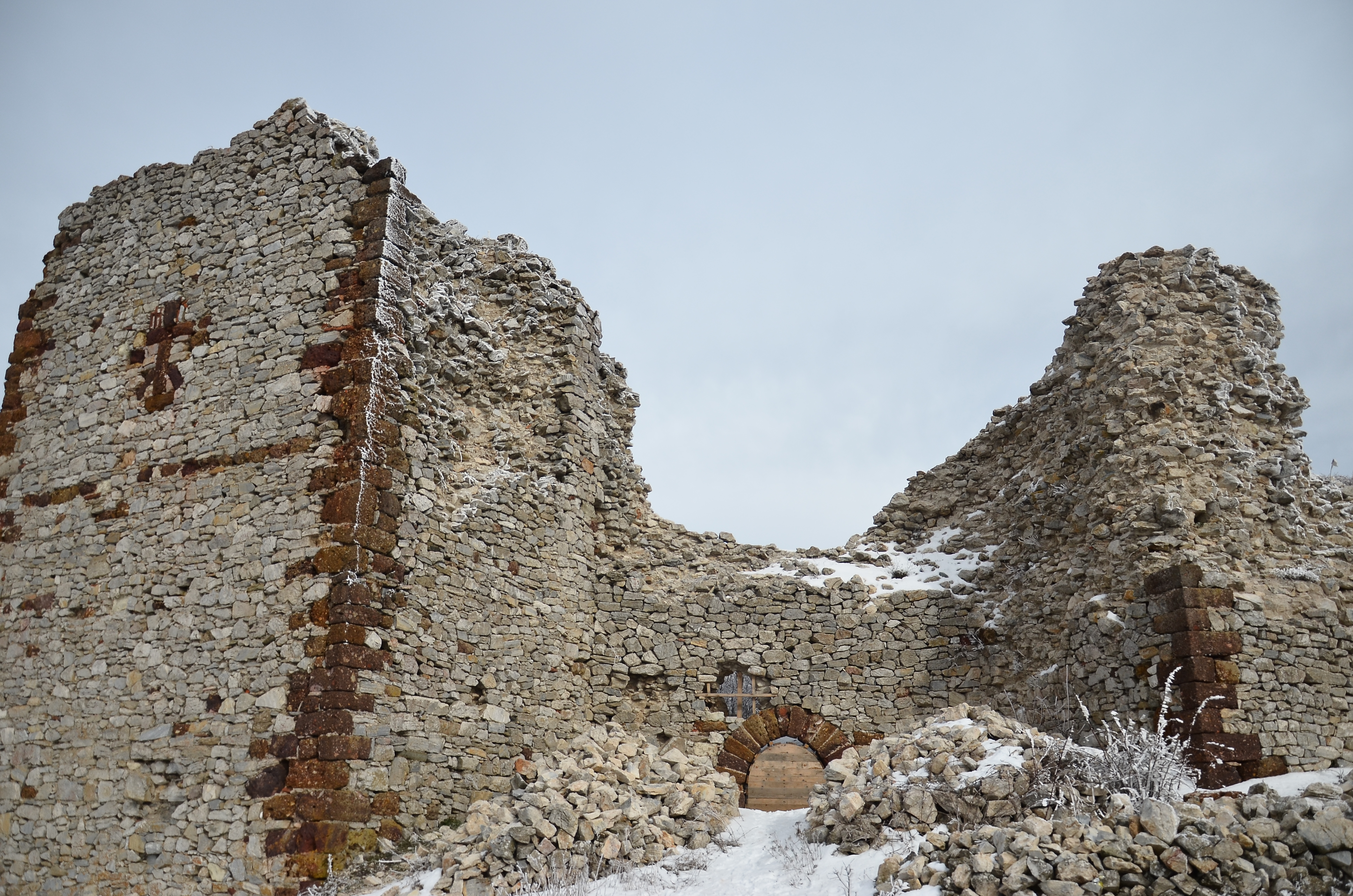 The walls of the oldest castel in Kosova,11Th century old